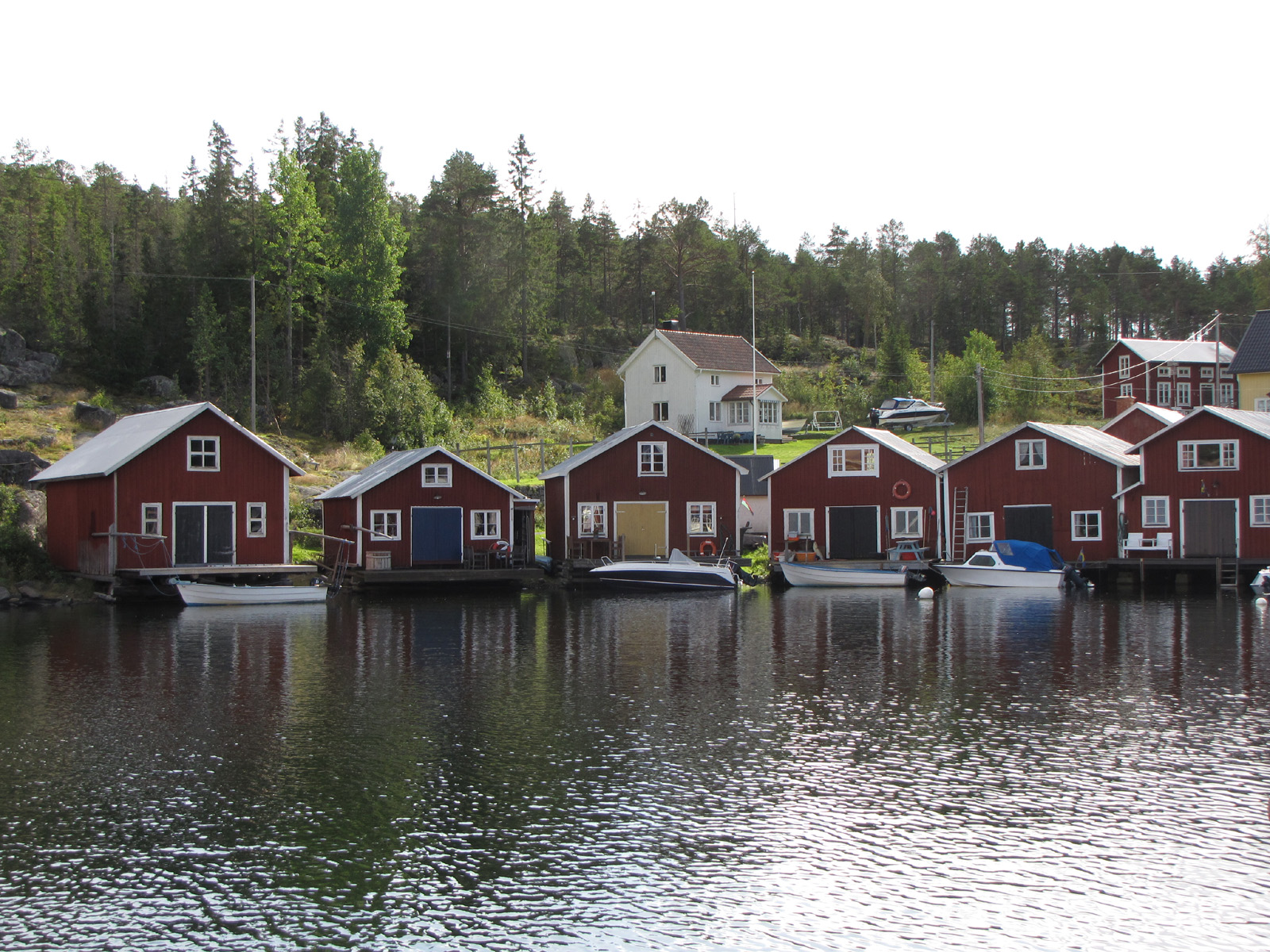 Bönhamn, a small fishing village in Kramfors Municipality, Sweden